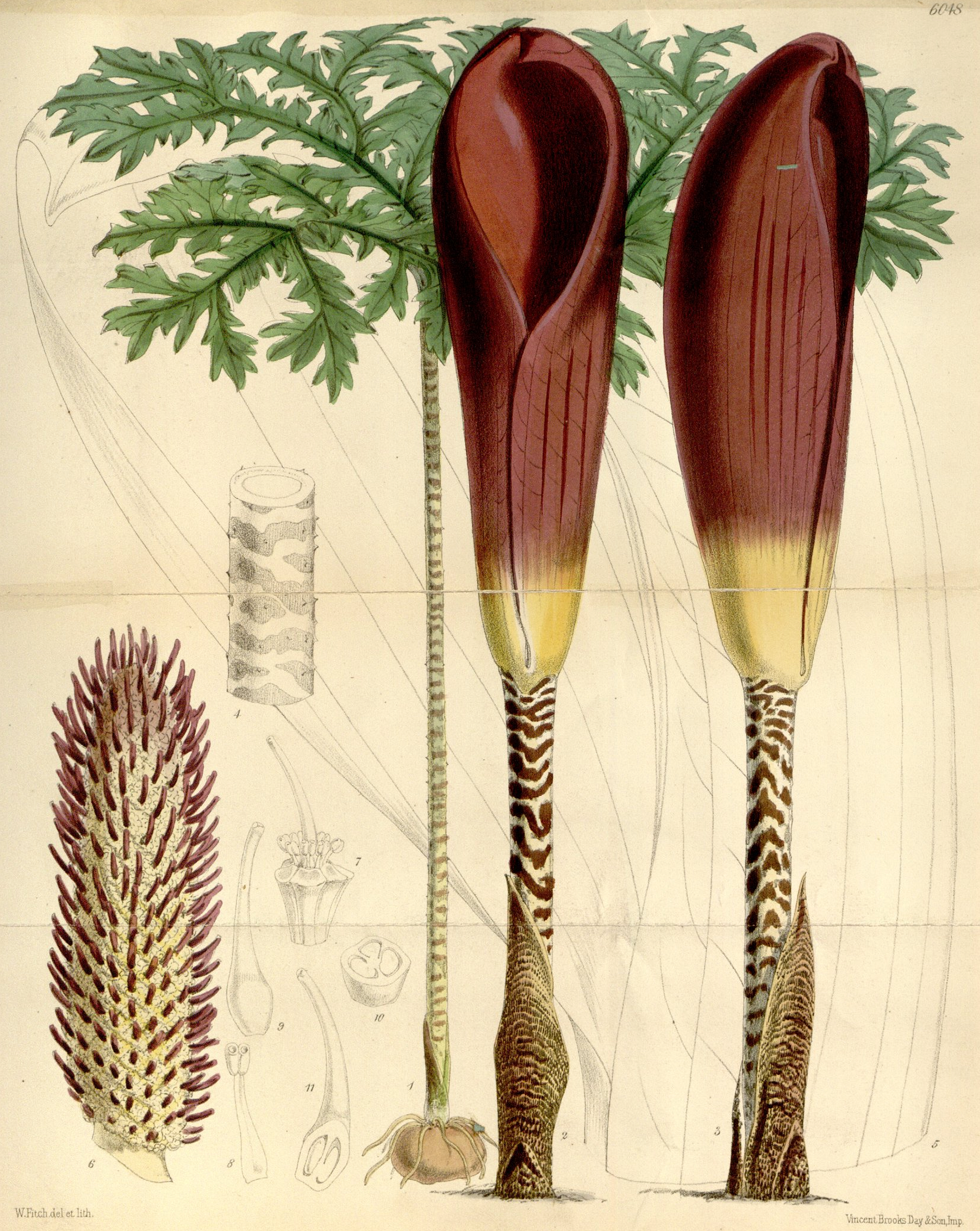 Dracontium gigas